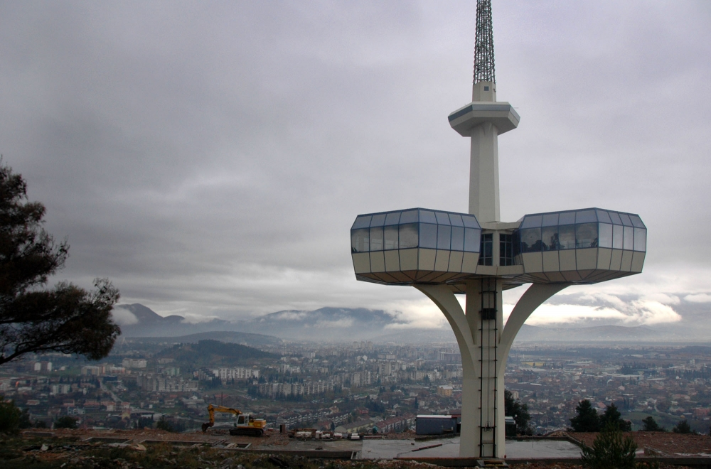 Radio frequency spectrum control tower in Podgorica